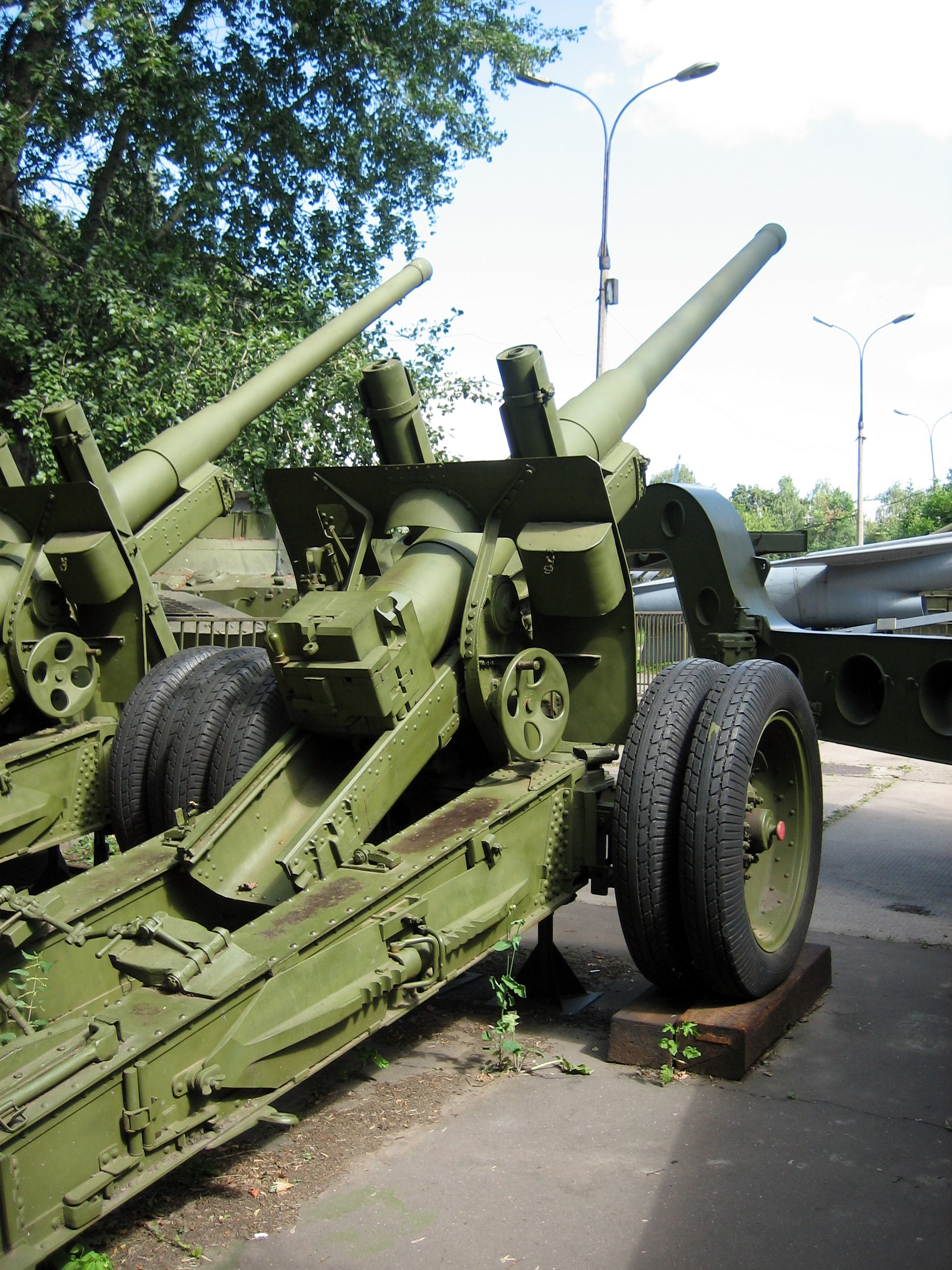 Soviet 122 mm А-19 Mark 1931/37 gun, displayed in Moscow Military Museum. Photo taken on 19 July, 2007. Source: Photo by me, User:Saiga20K.